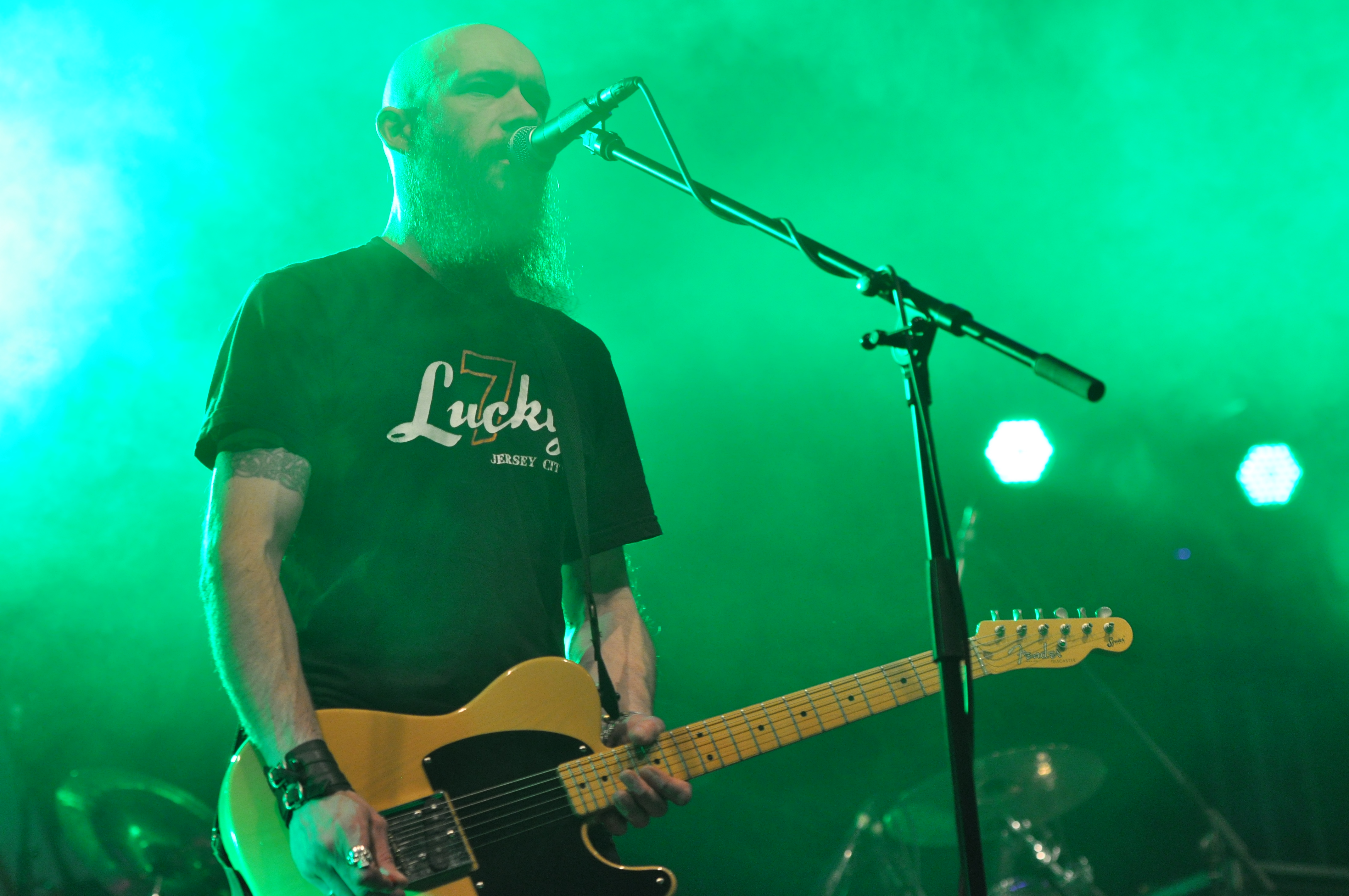 New Model Army, appearence at the 1st blacksheep festival in the castle yard / castle park of Bad Rappenau - Bonfeld (Germany)